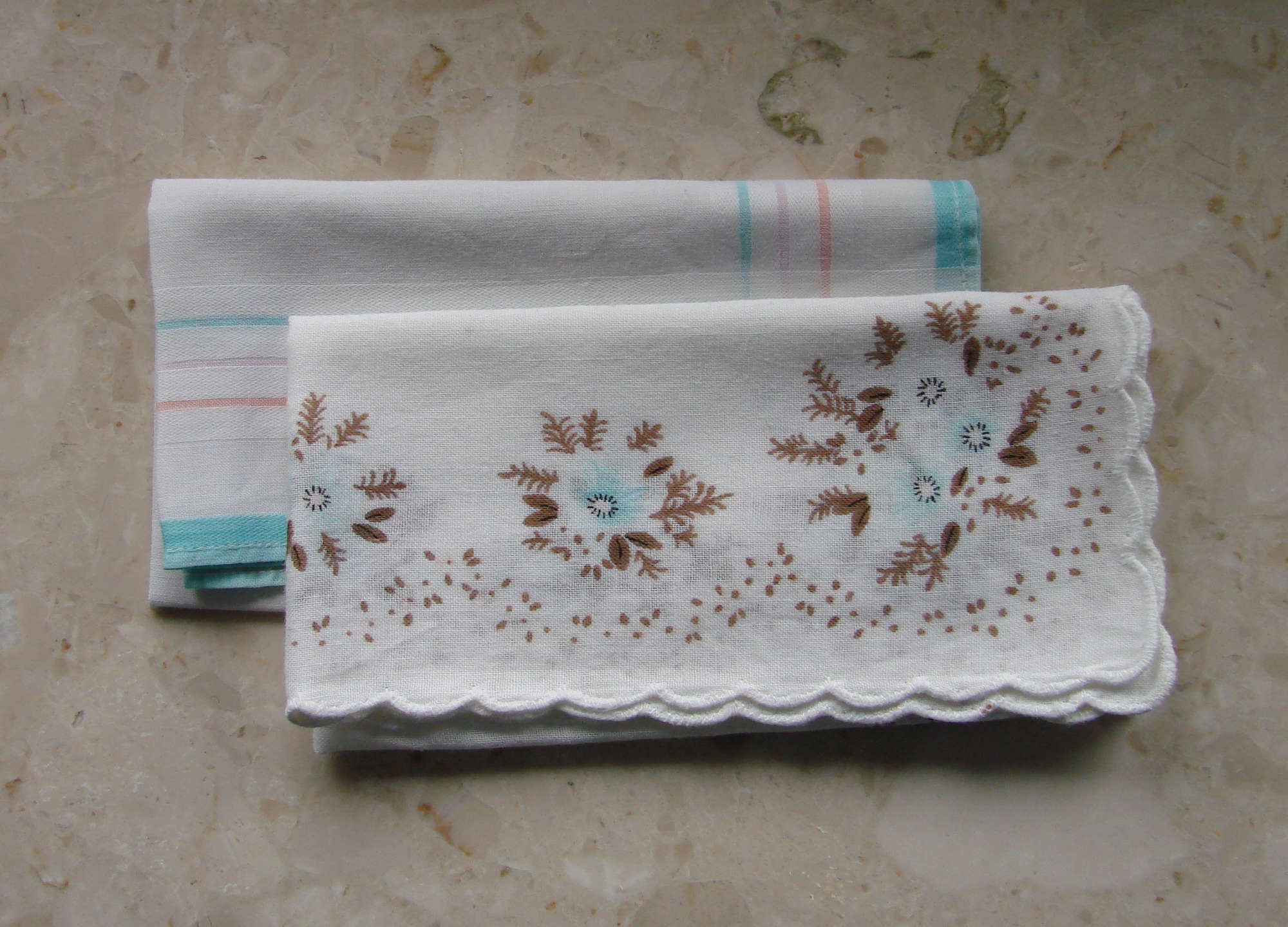 Handkerchief